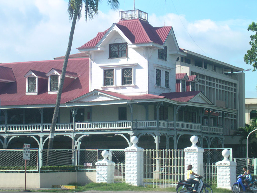 Silliman Hall of Silliman University in Dumaguete City at the corner of Rizal Boulevard and Silliman Avenue.